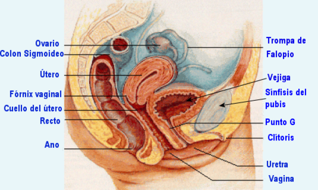 Female reproductive system